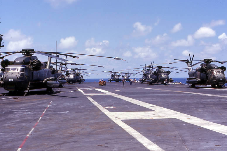 U.S. Air Force Sikorsky HH-53C Super Jolly Green Giant helicopters on the deck of the aircraft carrier USS Midway (CV-41) during Operation Frequent Wind, April 1975.